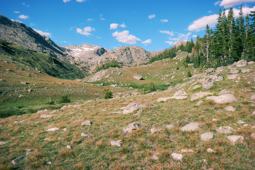 View of Cloud Peak from Paint Rock Creek.